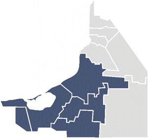 Map of the Second Federal Electoral District of the State of Campeche, México.